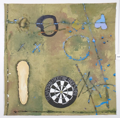 Ciel Bergman, Spiritual Guide Map for Modern Western Man, 1972 acrylic/linen 84x84” Photographer: David Astilli